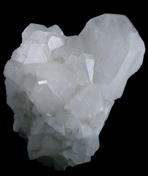 Colemanite Locality: Death Valley, Inyo County, California, USA (Locality at ) Size: 8.9 x 5.5 x 5.2 cm. Superb luster distinguished this fine cluster of sharp colemanite crystals from the evaporite deposits at Death Valley. The large crystal measures about 4 cm x 3 cm. Colemanite is a secondary mineral that forms by alteration of borax and ulexite. These crystals are really shiny and sharp.